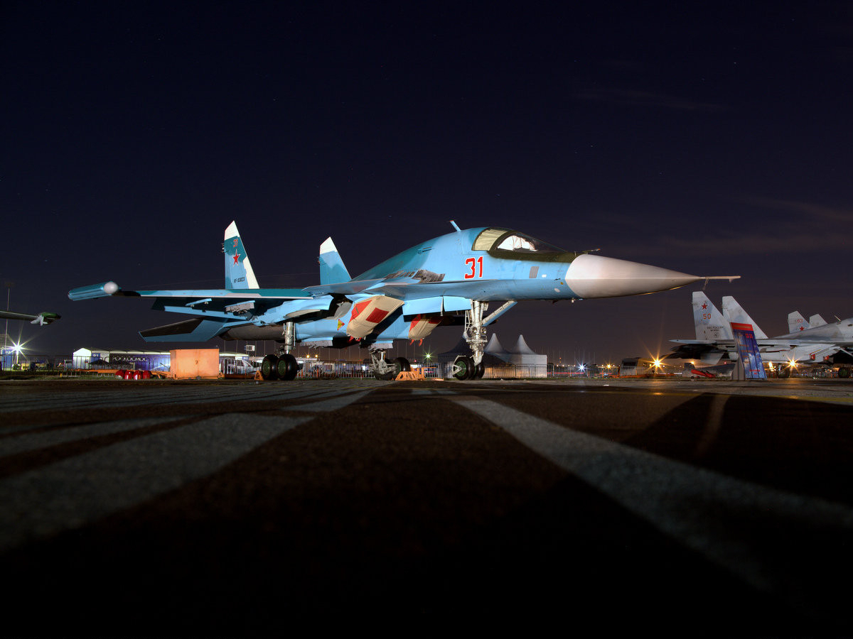 Sukhoi Su-34 (RF-93823) at night